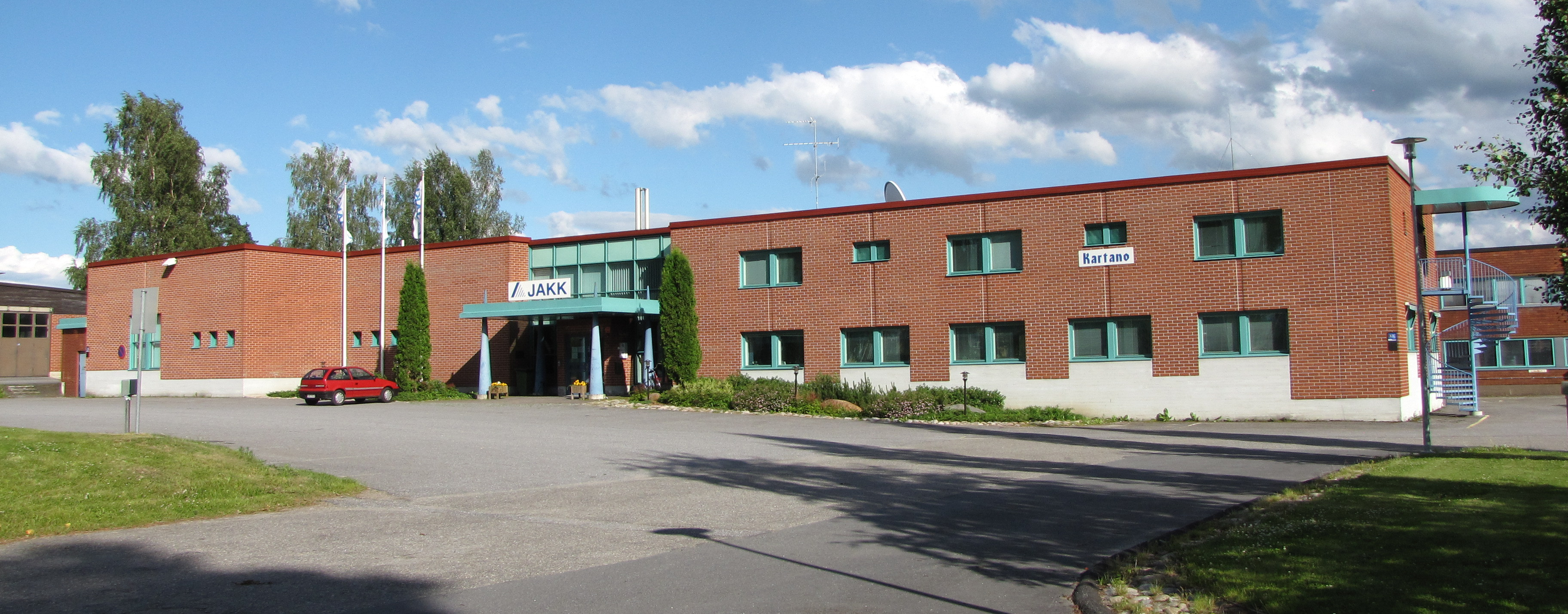 Jalasjärvi adult educational centre JAKK (Jalasjärven aikuiskoulutuskeskus JAKK in Finnish) in Jalasjärvi, Finland.